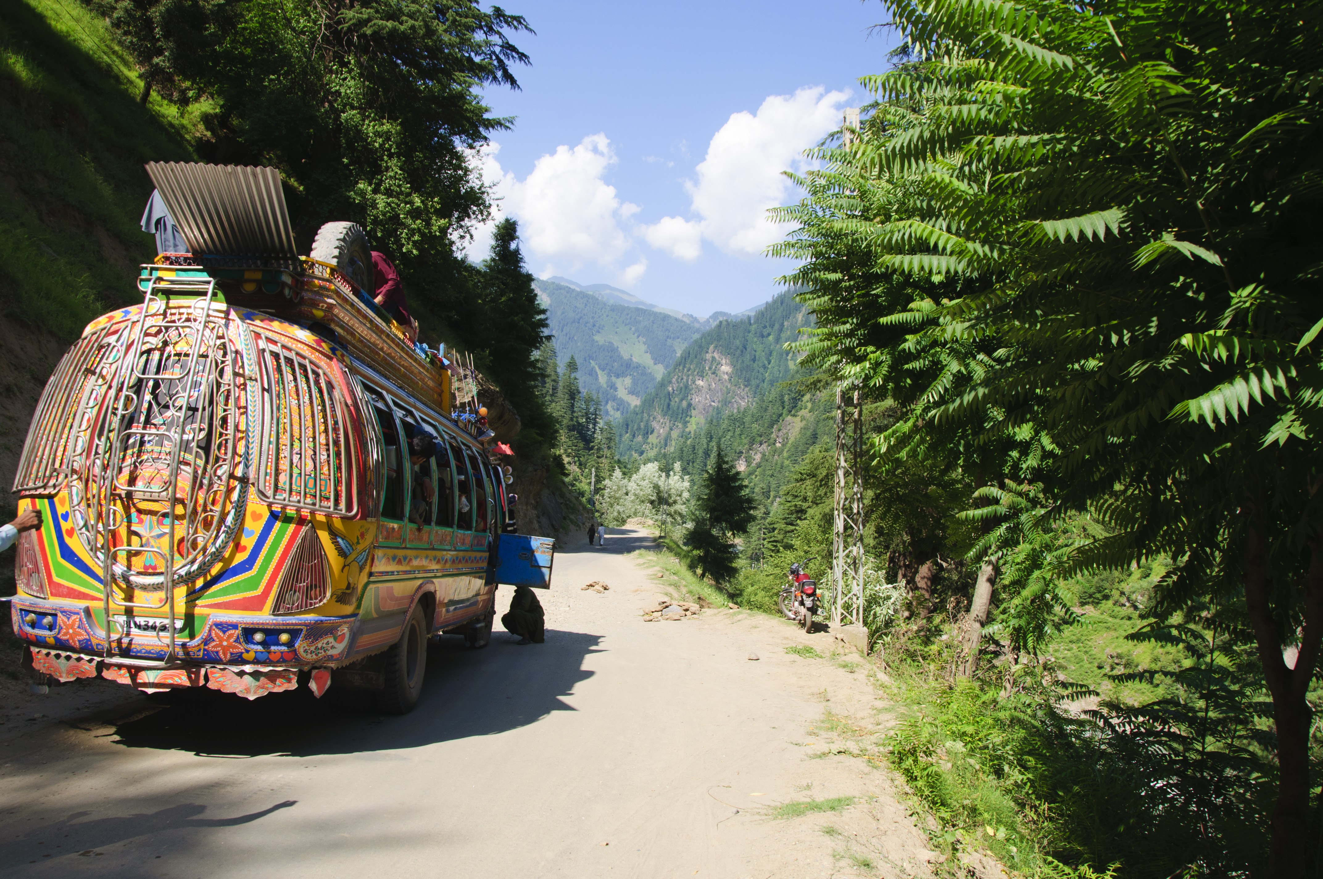 Near Lowat, Neelum Valley AJK Pakistan